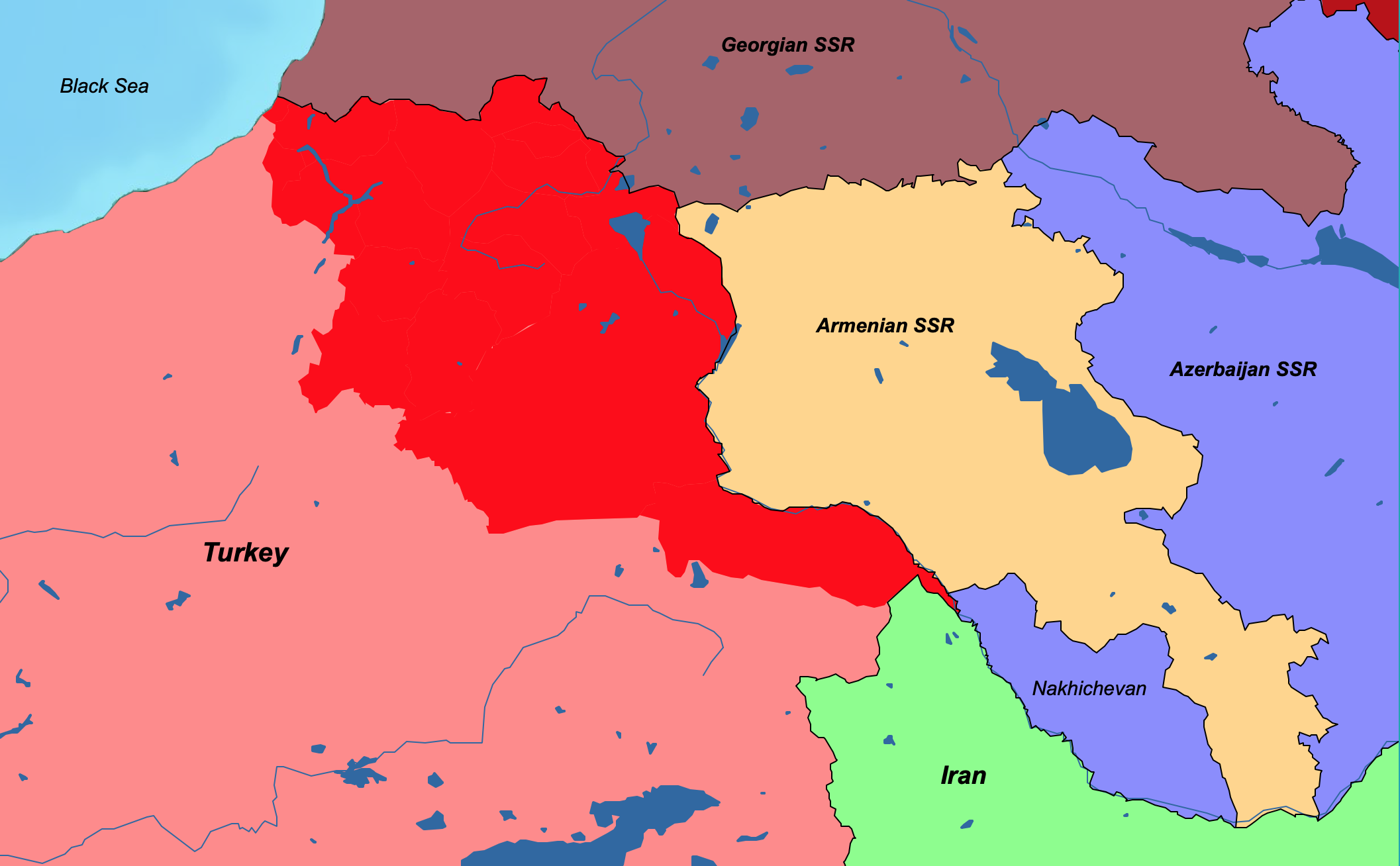 Map of Turkish territory gains in 1921 Treaty of Kars, with perspective to 1914 pre-war Ottoman borders.